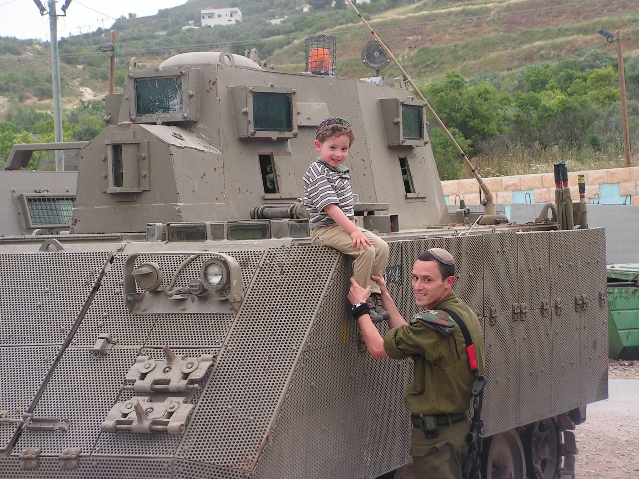 July 18, 2011 Last Thursday, Major Maoz Schwartz (featured in the photo with his son) and Sergeant Major Shlomi Loya pulled over on a West Bank road to help a Palestinian family in need. The officers approached a screaming mother and panicked father, who held his lifeless daughter. The officers administered infant CPR, eventually reviving the two-year-old toddler, who was later driven to a nearby hospital. Photo by Maj. Maoz Schwart.